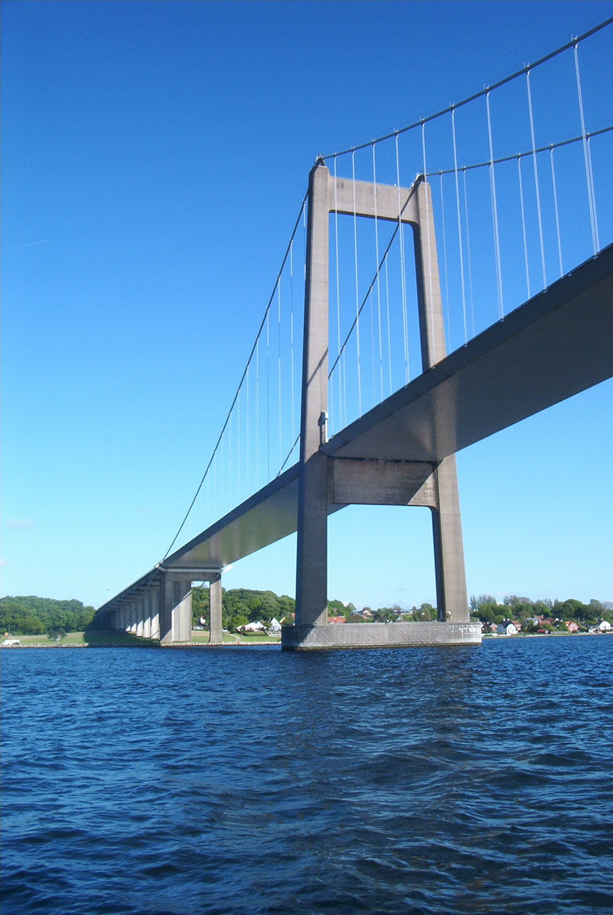 New Little Belt Bridge in Denmark between Jutland mainland and Funen island